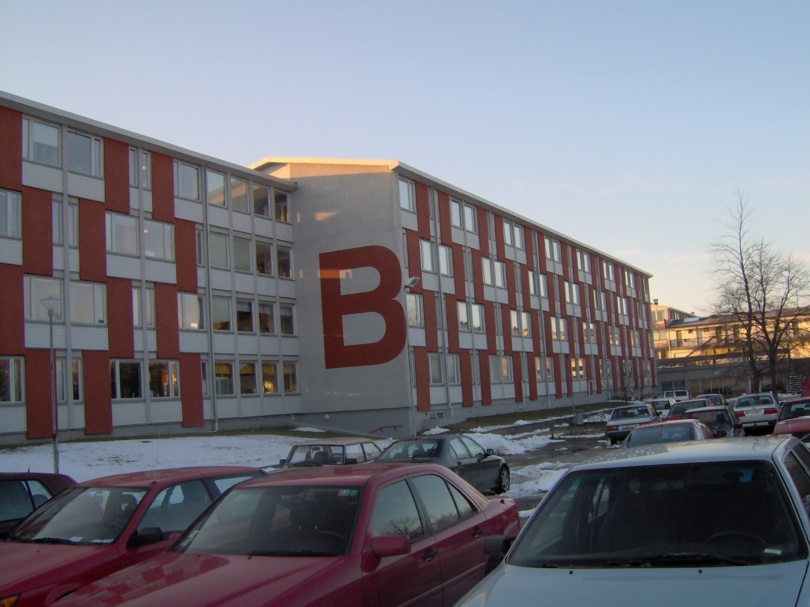 Delphi student campus, Lund, taken by Andreas Vilén, March 6th 2005